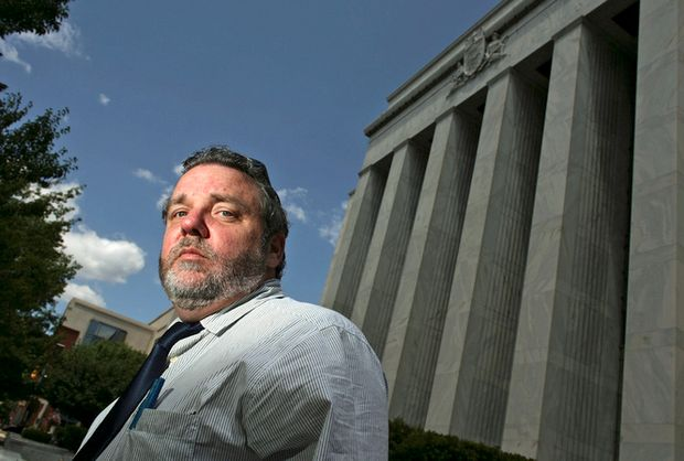 Journalist Peter Shellem photo